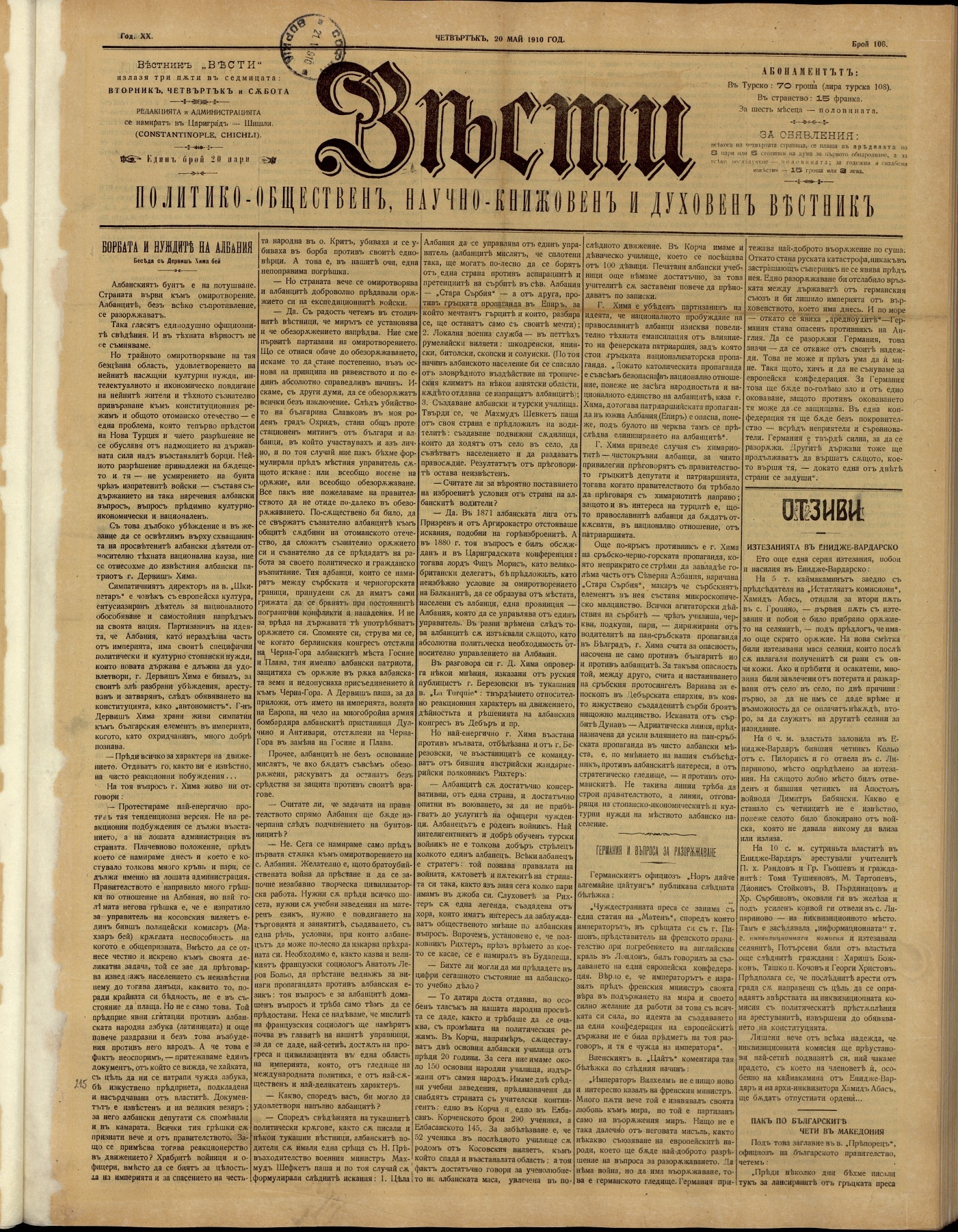 Vesti